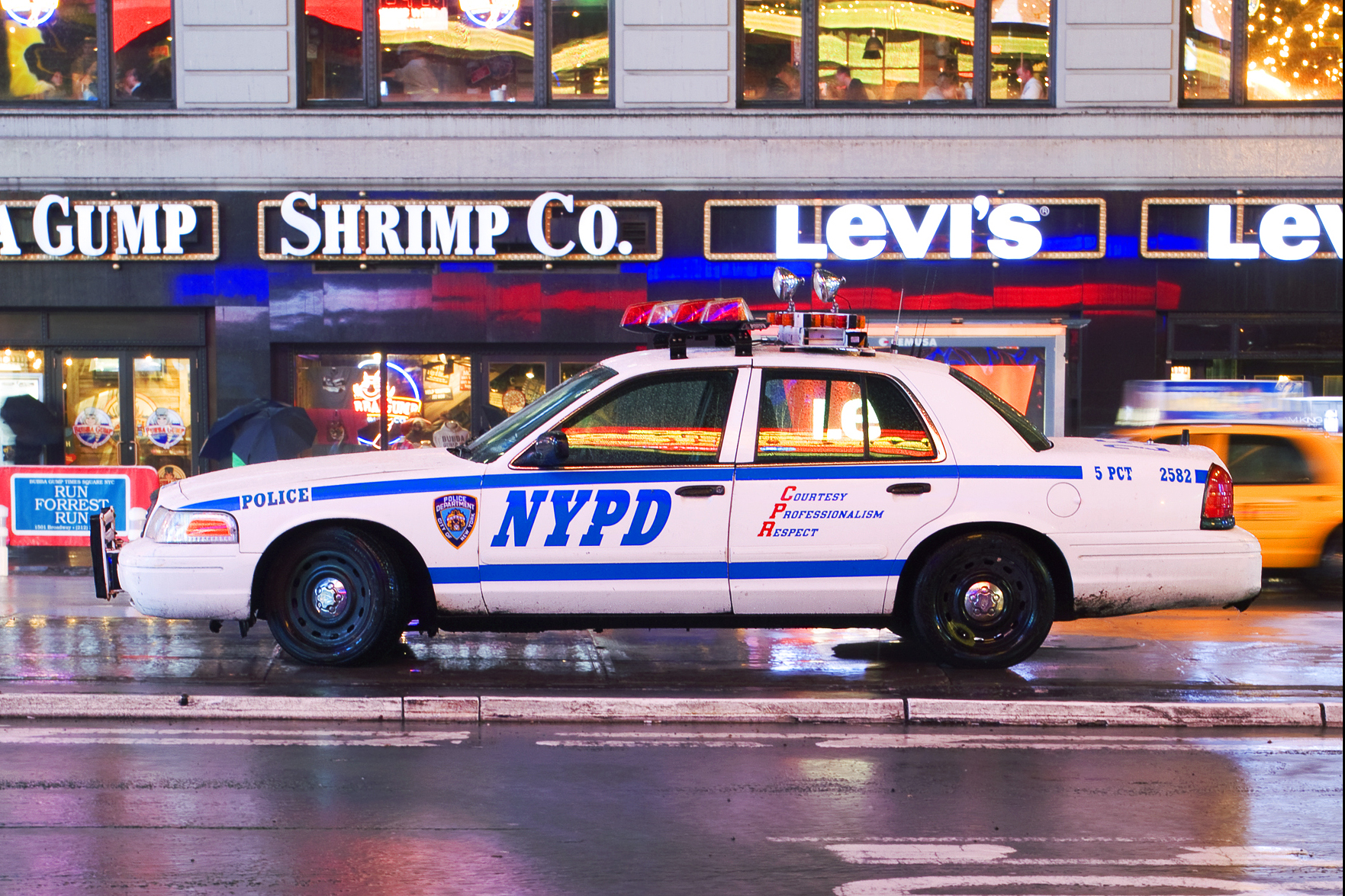 A N.Y.P.D. Crown Victoria parked on Times Square in New York City, United States of America.